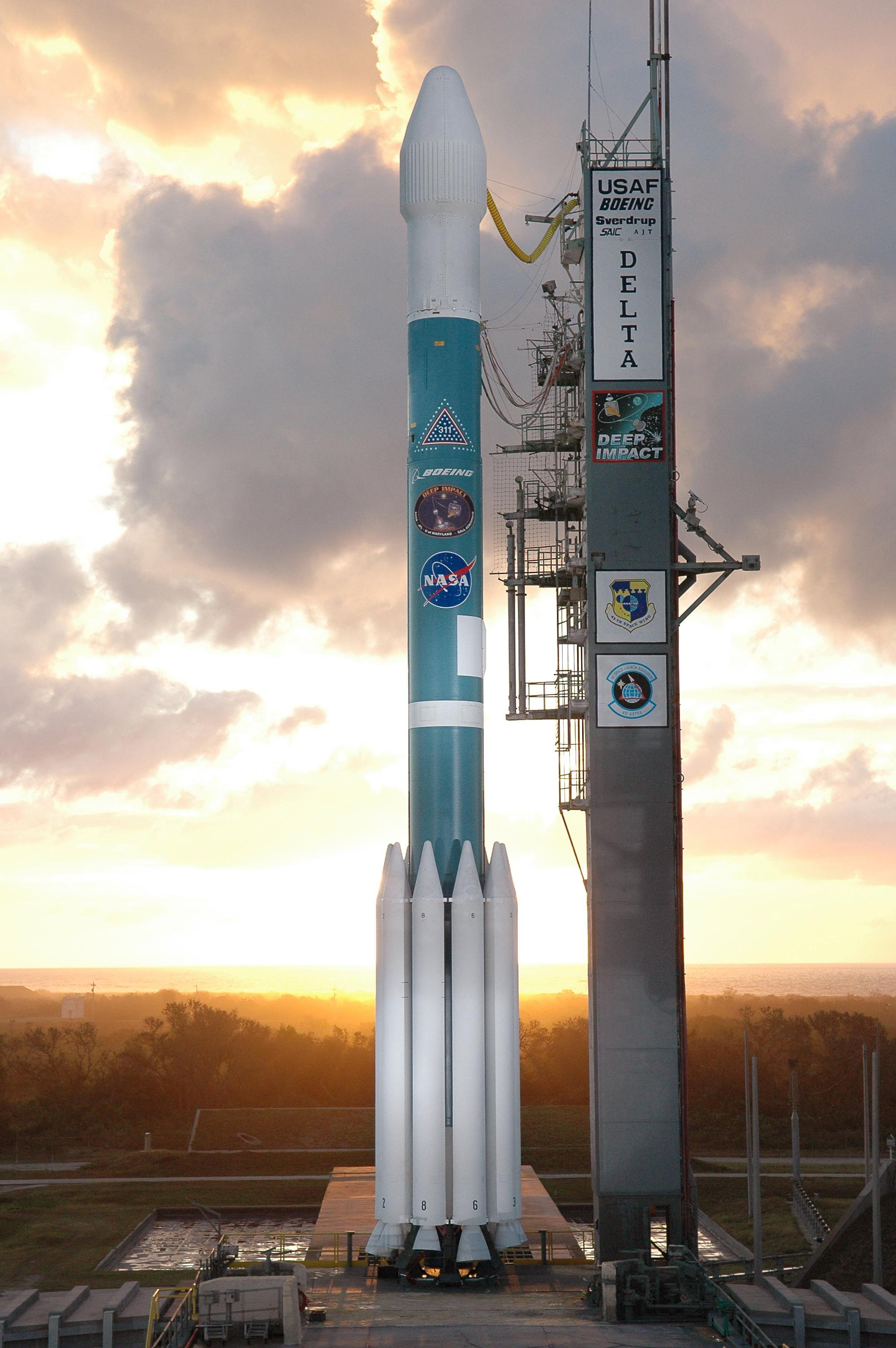 The sun rises behind Launch Pad 17-B, Cape Canaveral Air Force Station, Fla., where the Boeing Delta II rocket carrying the Deep Impact spacecraft waits for launch. Gray clouds above the horizon belie the favorable weather forecast for the afternoon launch. Scheduled for liftoff at 1:47 p.m. EST today, Deep Impact will head for space and a rendezvous with Comet Tempel 1 when the comet is 83 million miles from Earth. After releasing a 3- by 3-foot projectile (impactor) to crash onto the surface July 4, 2005, Deep Impact’s flyby spacecraft will reveal the secrets of the comet’s interior by collecting pictures and data of how the crater forms, measuring the crater’s depth and diameter as well as the composition of the interior of the crater and any material thrown out, and determining the changes in natural outgassing produced by the impact. It will send the data back to Earth through the antennas of the Deep Space Network. Deep Impact is a NASA Discovery mission.